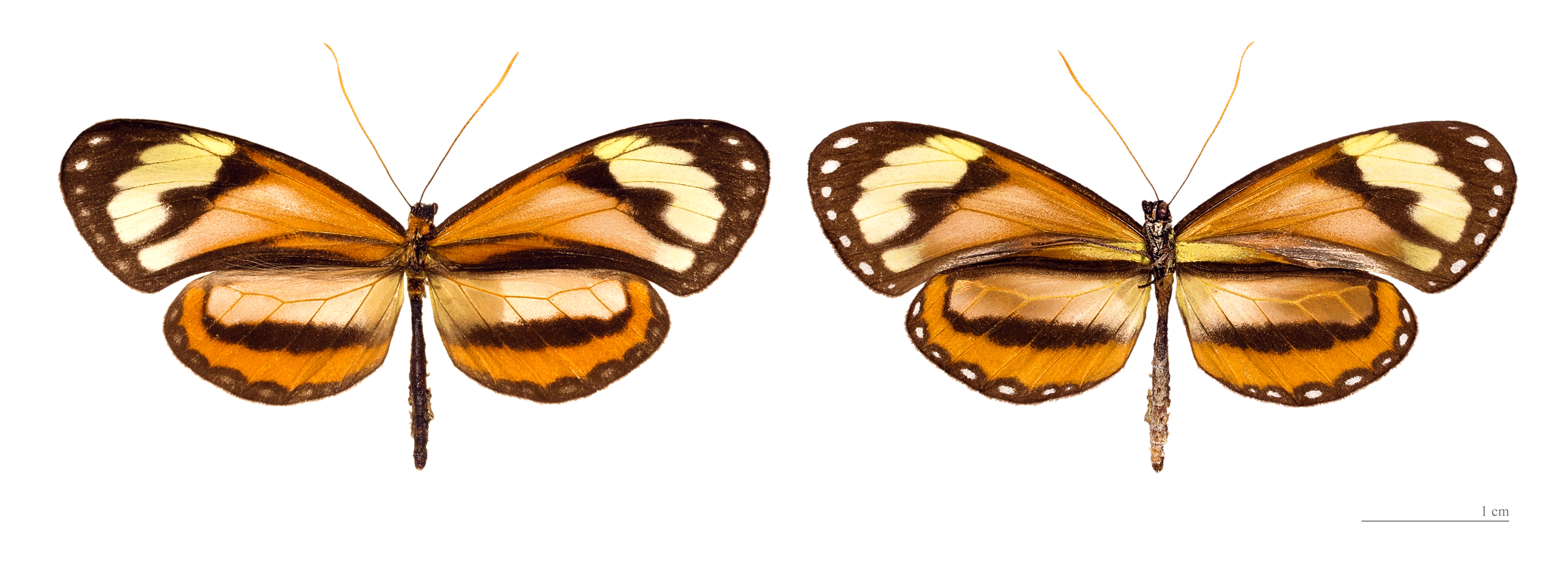 ♂ - Two views of same specimen Locality : Degrad Lalanne, Route de Kaw PK31, French Guiana.